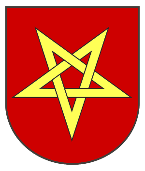 Old coat of arms of Efringen in Efringen-Kirchen